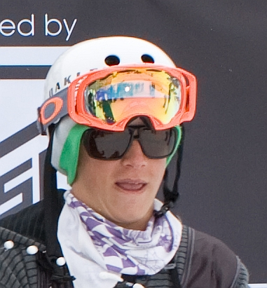 Mark McMorris at the ANTE UP competition in 2010, Whistler, BC